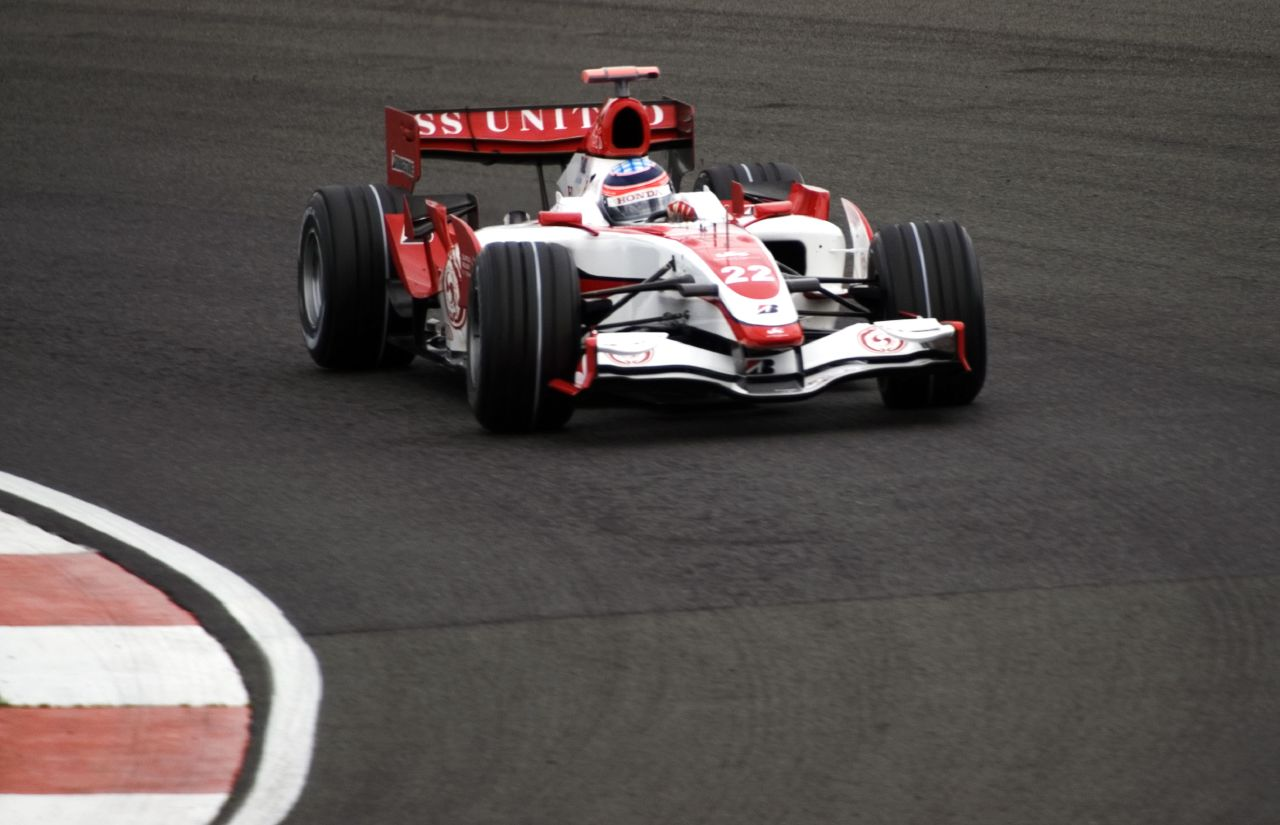 Takuma Sato driving for Super Aguri F1 at the 2007 British Grand Prix.